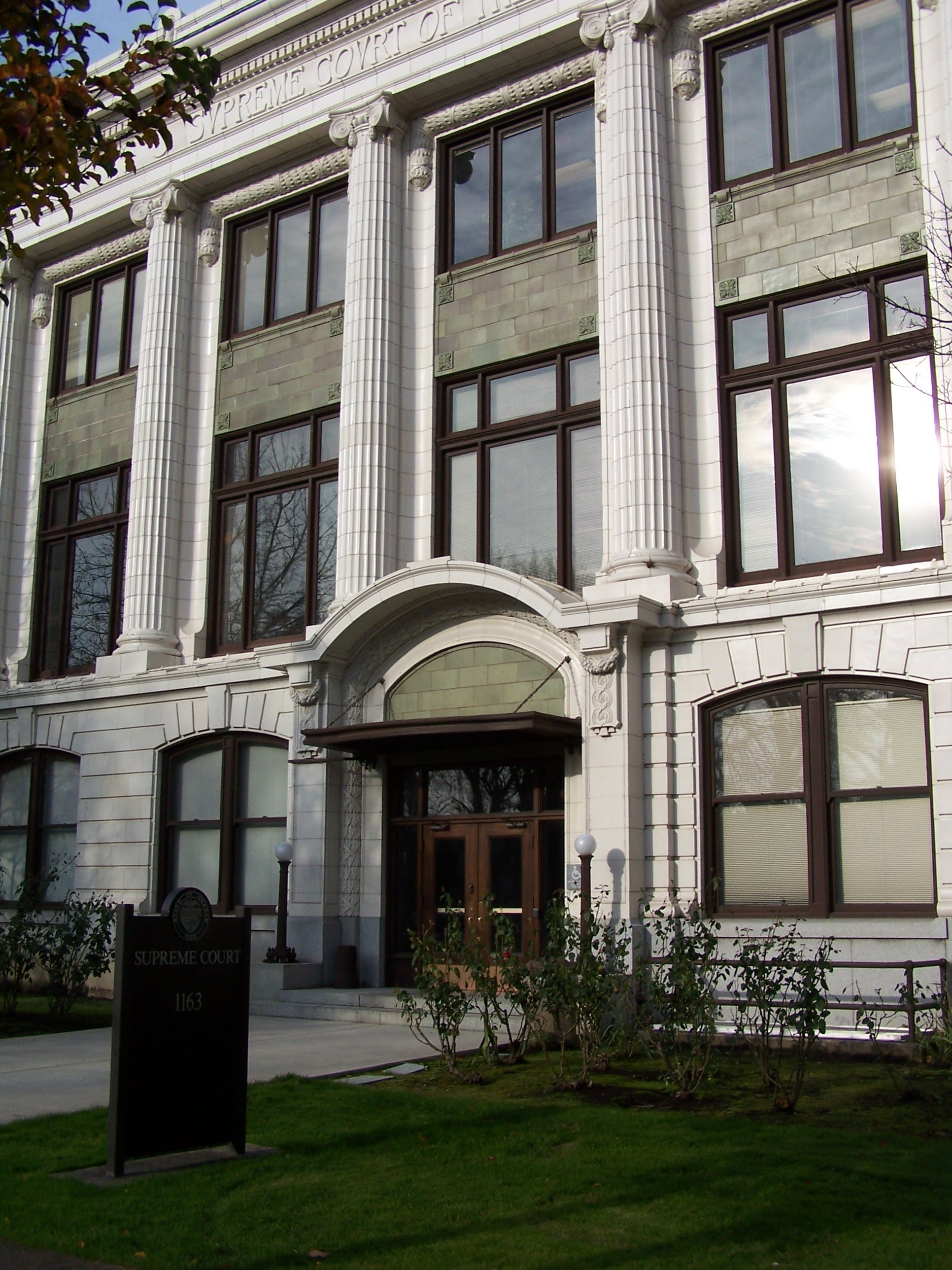 Oregon Supreme Court Building front entrance